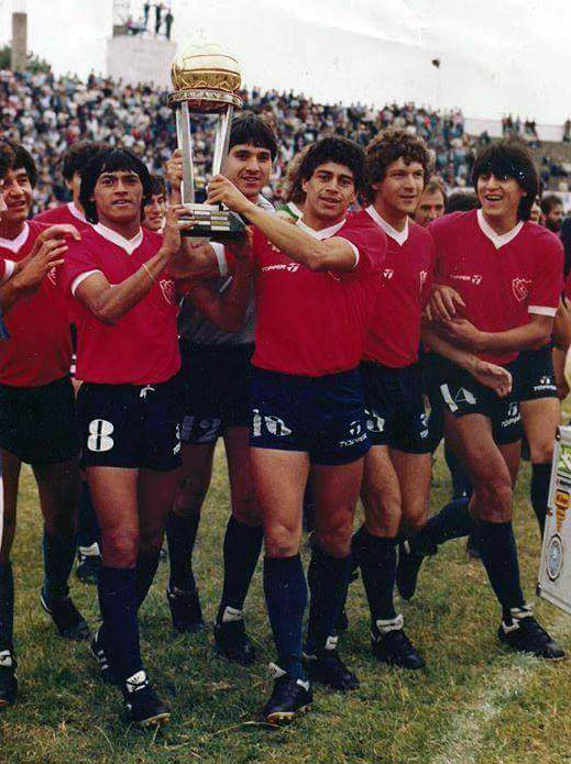 C.A. Independiente players celebrating the Intercontinental Cup (holding the trophy) won v. Liverpool F.C. in Tokyo. Photo taken in the Libertadores de América Stadium.